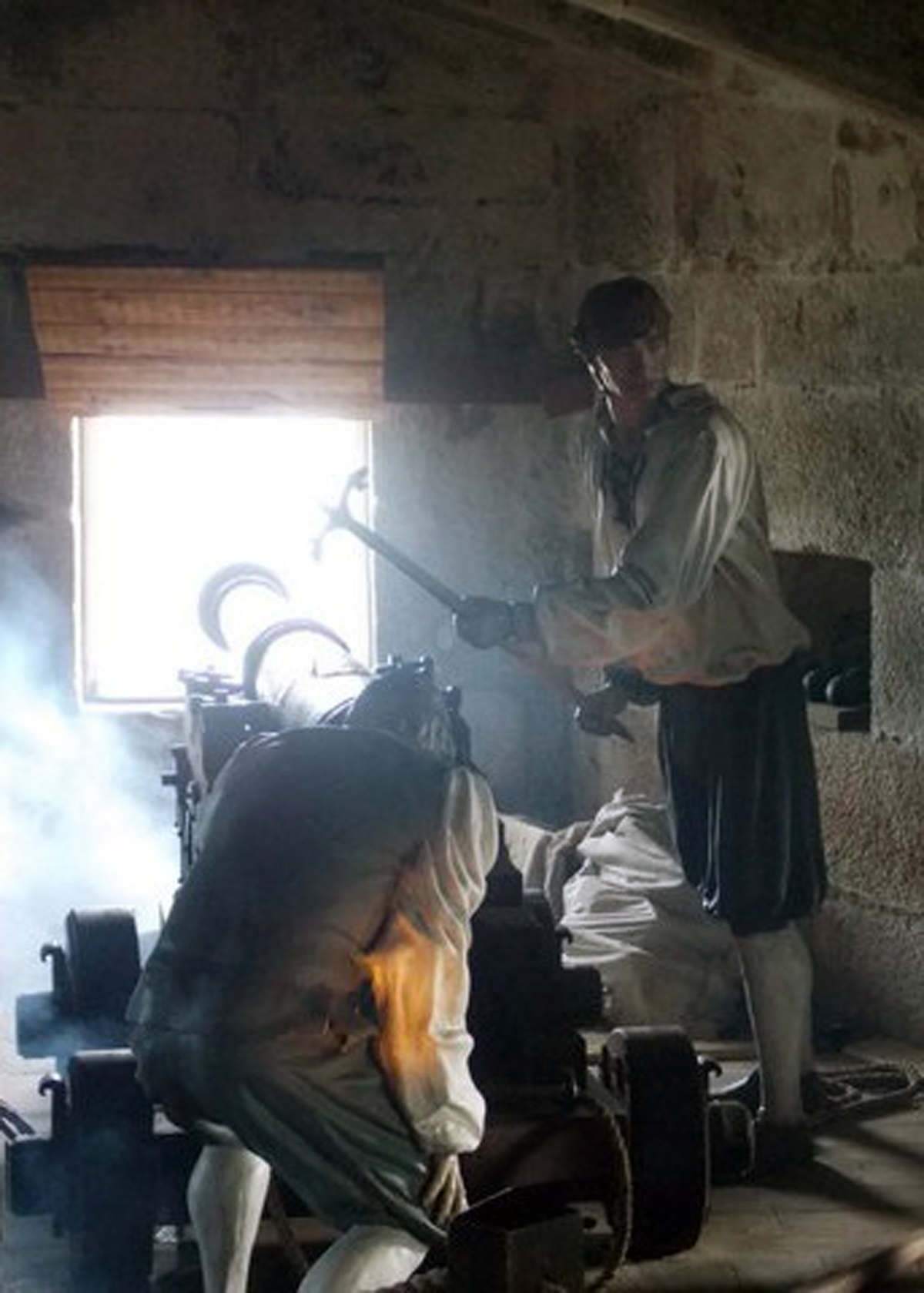 Pendennis Castle renactment display; trimmmed and colour balanced from original